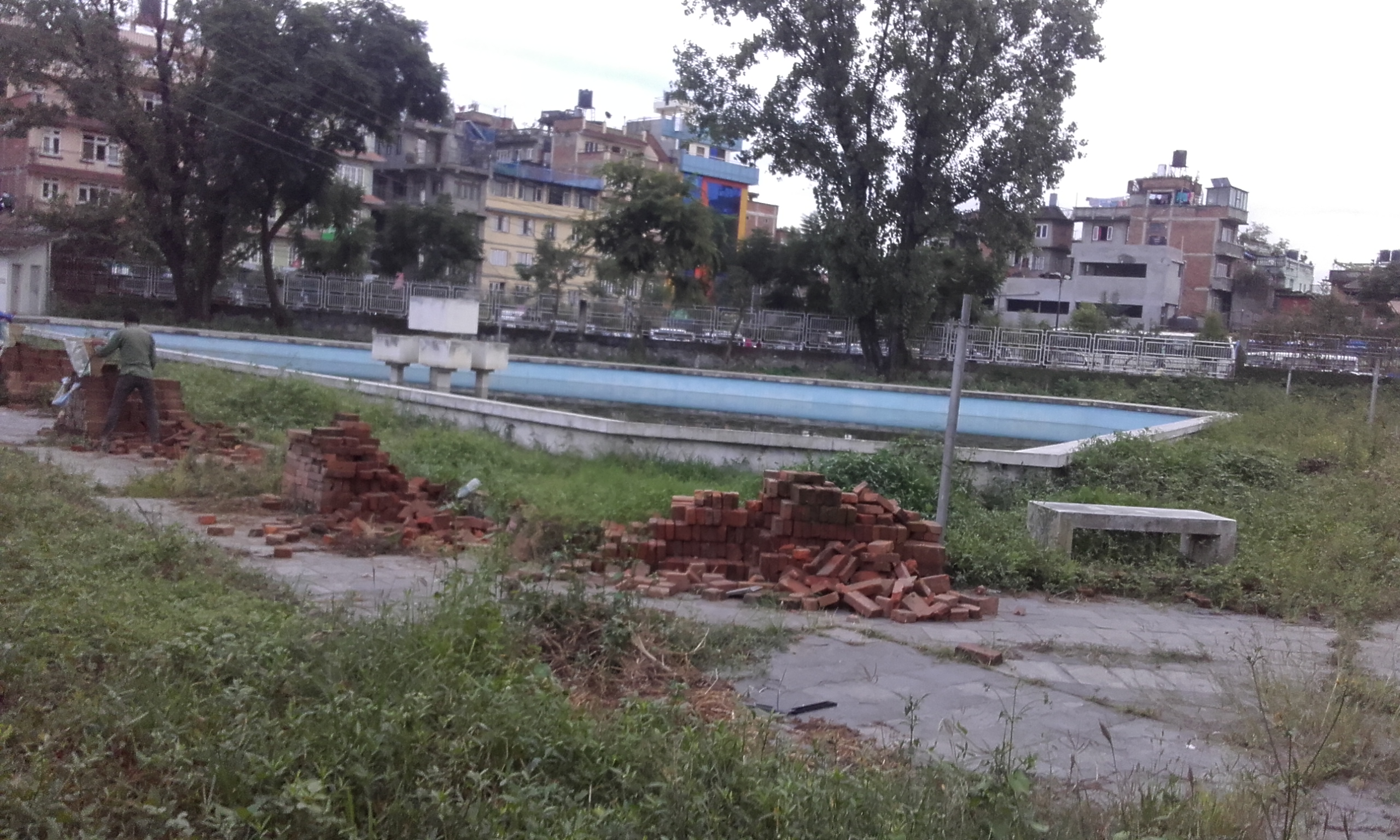 Paleswan Pukhu has been reduced in size by using a part of its surface for a municipal building in Paten, Nepal.